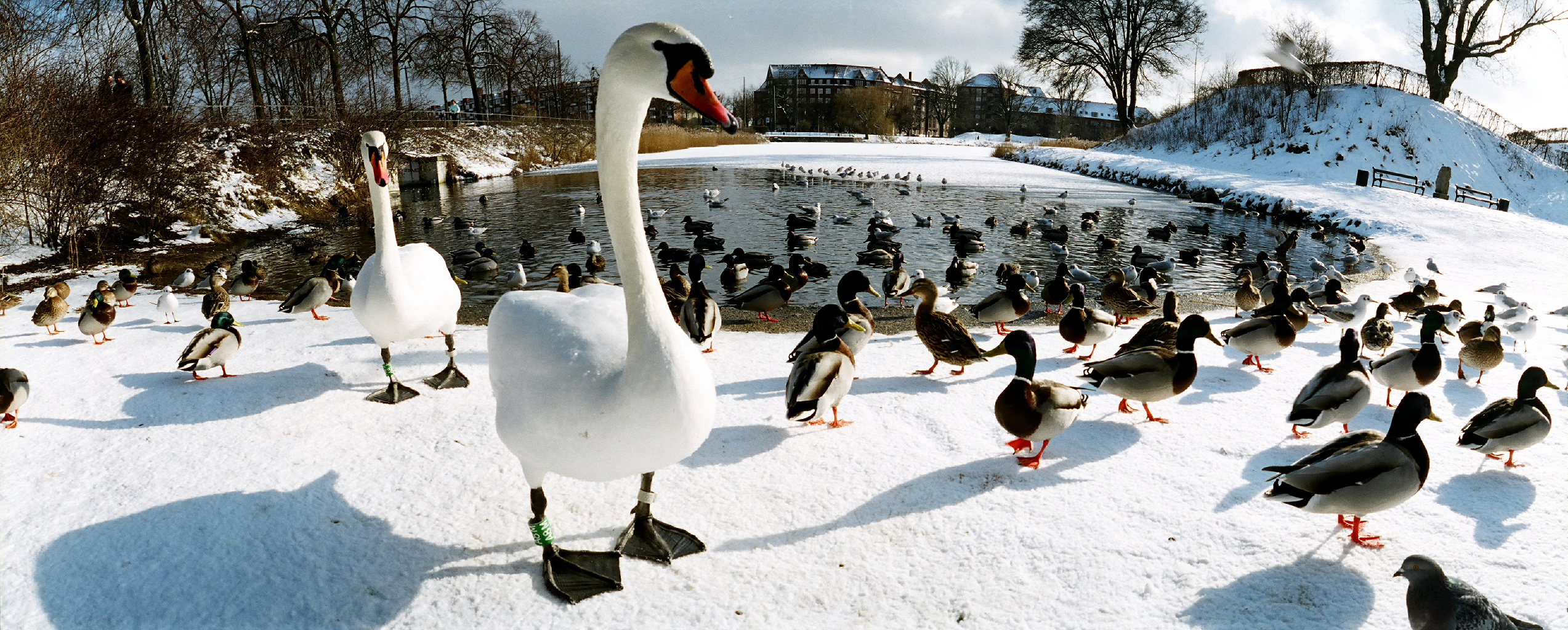 Birds in the wintertime at Stadsgraven (Amager, Copenhagen, Denmark). Taken with Horizon S3 Pro.